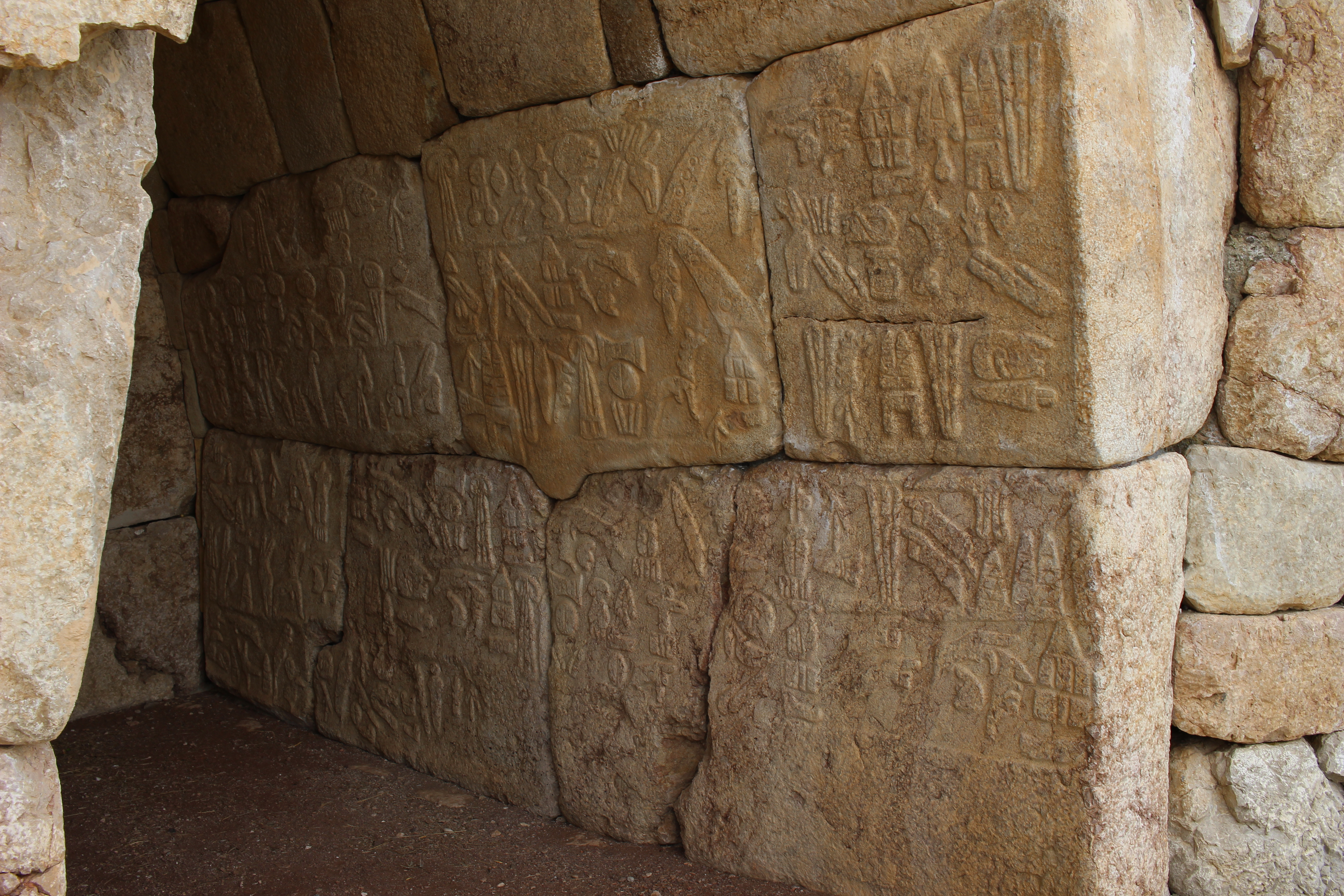 The Hieroglyph Chamber Hattusa